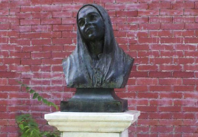 Patrona de Sabana de la Mar 28/2/2000